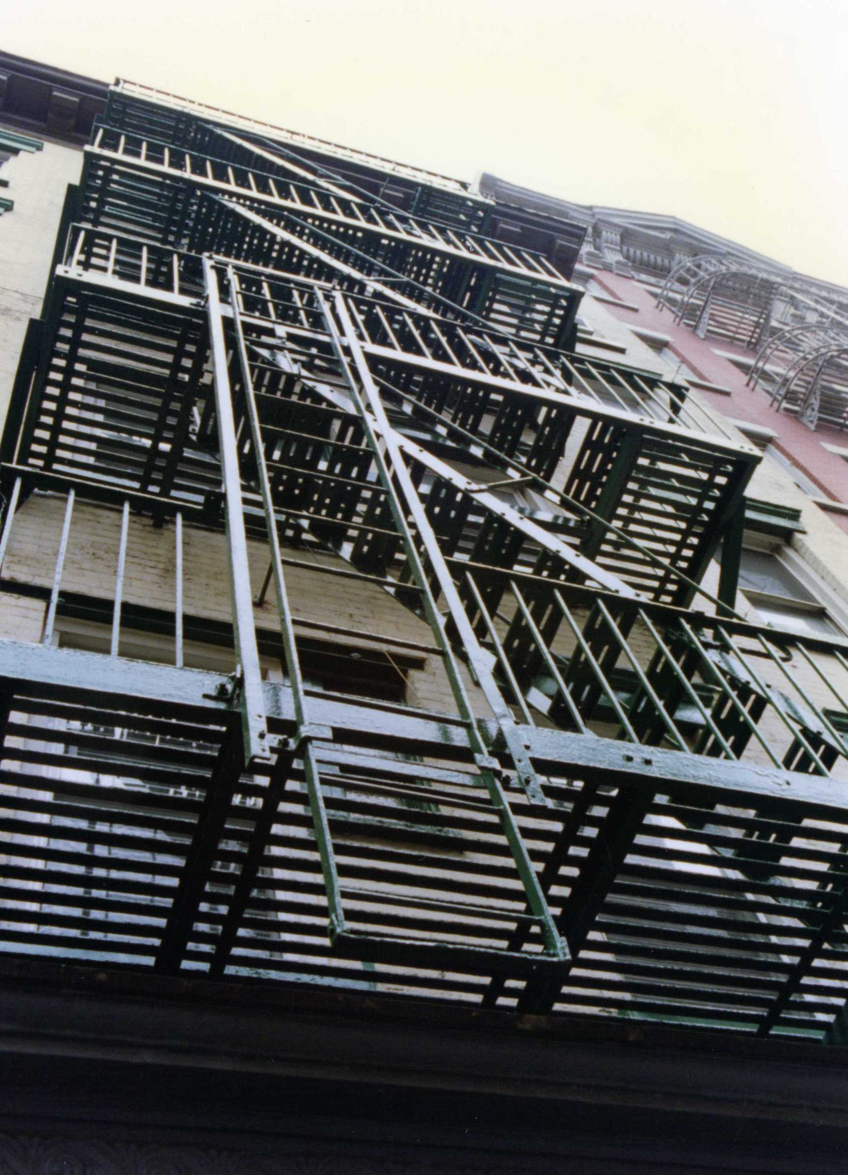 Fire escape of a Soho office building in New York City